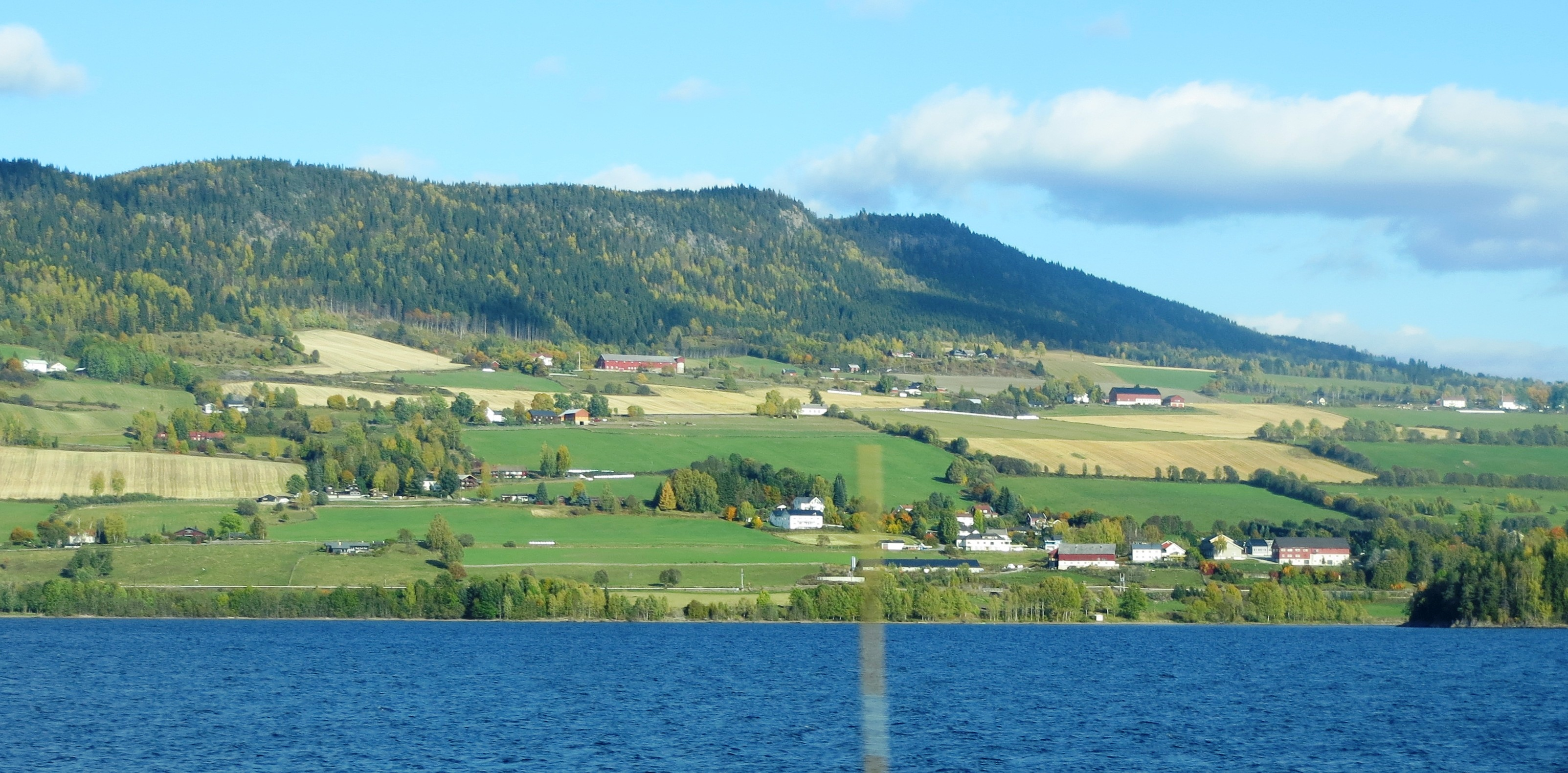 Image of the western part of Ringsaker municipality, at lake Mjøsa, seen from the western bank of the lake. Opland, Norway